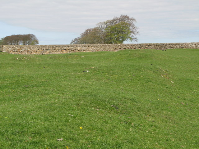 Halton Chesters (Onnum) Roman Fort - east wall